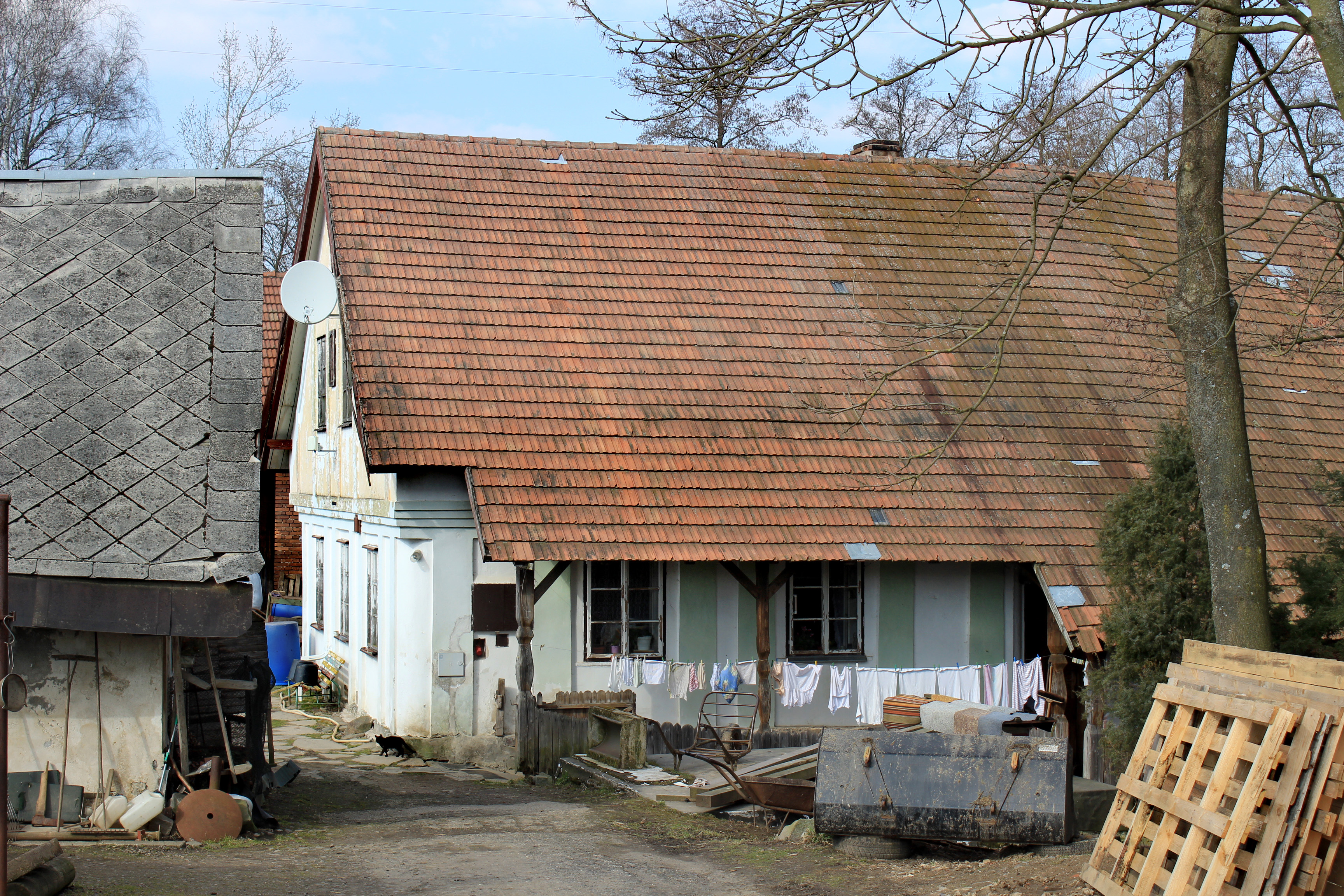 Protected Králova pila, Milesimov, part of Všeradov village, Czech Republic.